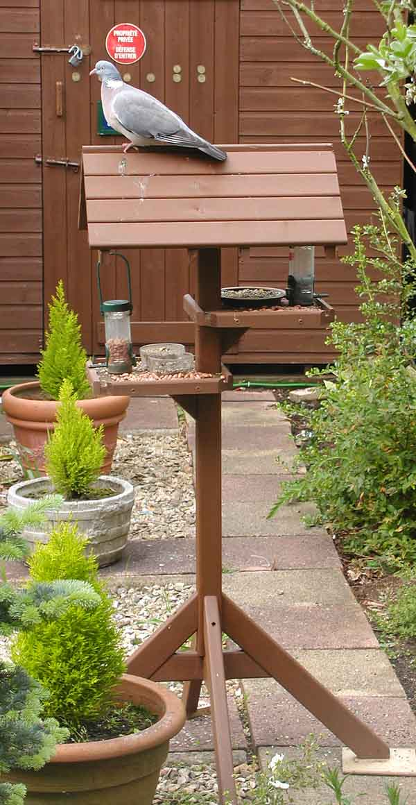 A bird table in my garden in Bristol, England. A Wood Pigeon is on the roof (don't be fooled by the French notice in the background, I bought it in Paris).